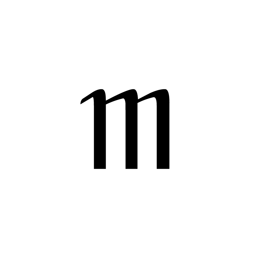 Letter 'Ga' of Javanese script in Yogyakarta style.